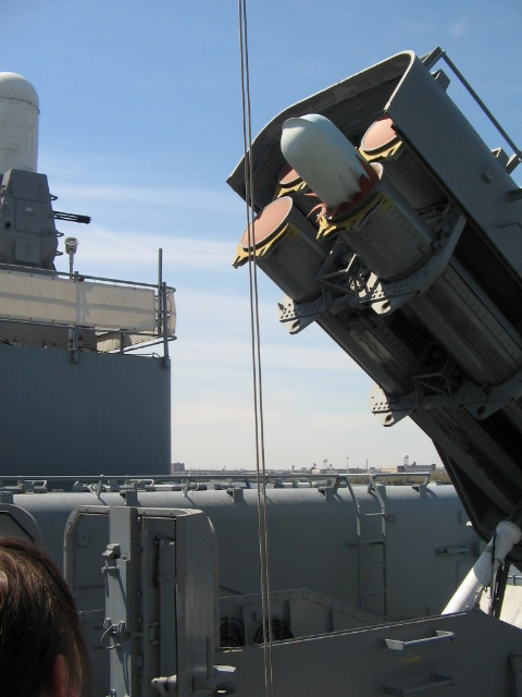 Missile on the retired battleship New JerseyTomahawk Cruise